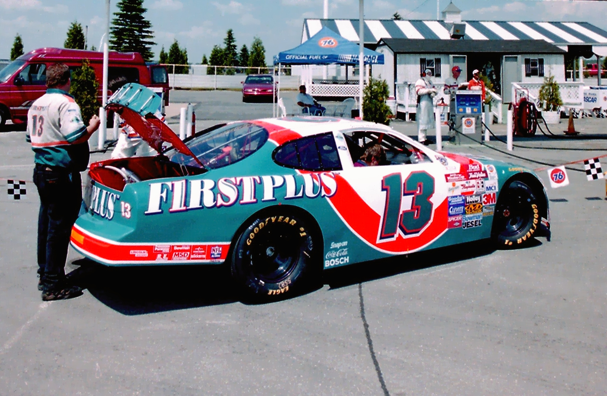 The #13 NASCAR car for driver Jerry Nadeau owned by NFL quarterback Dan Marino. NASCAR Photography by former official photographer Darryl Moran. Cropped from the original.